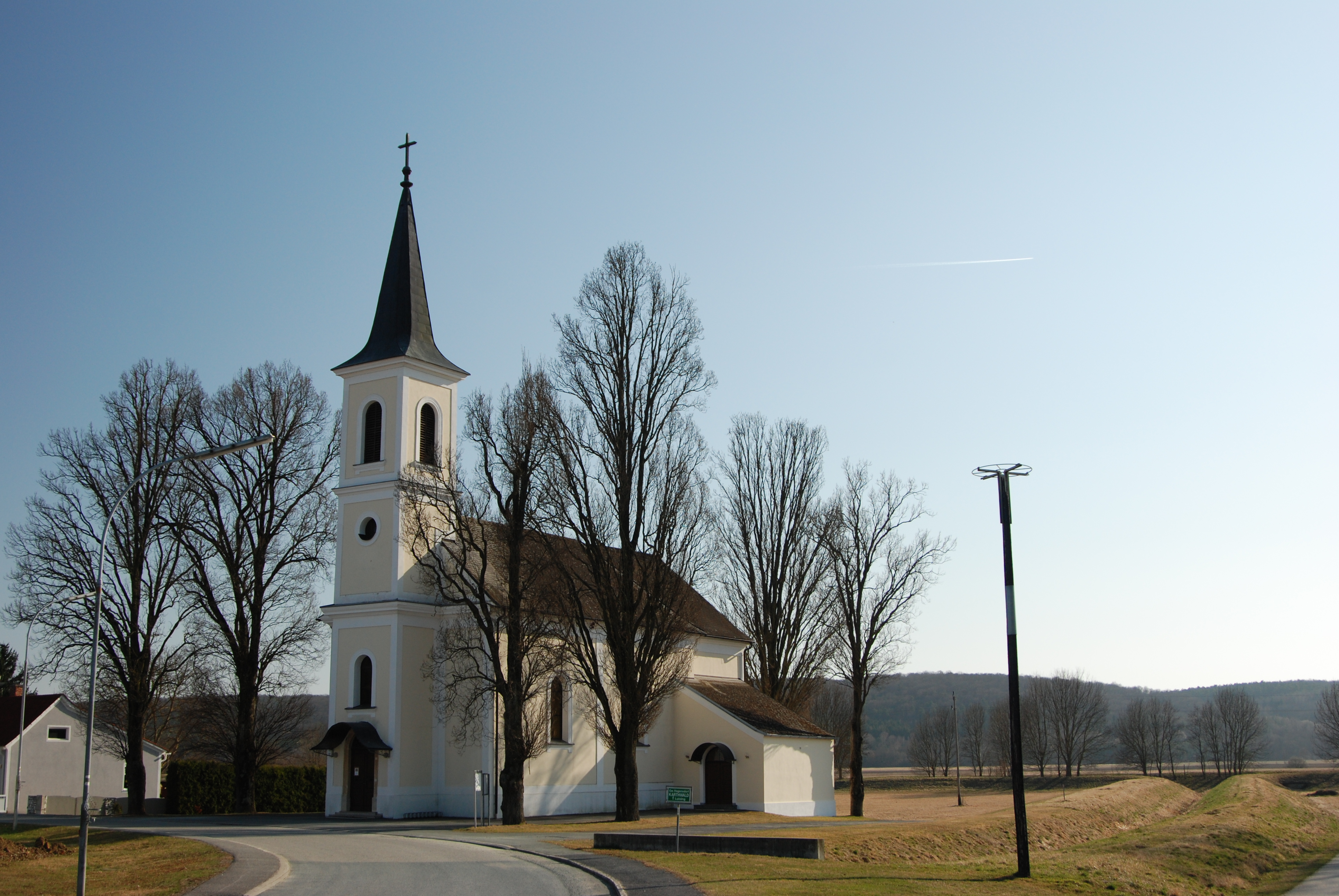 Church Hagensdorf